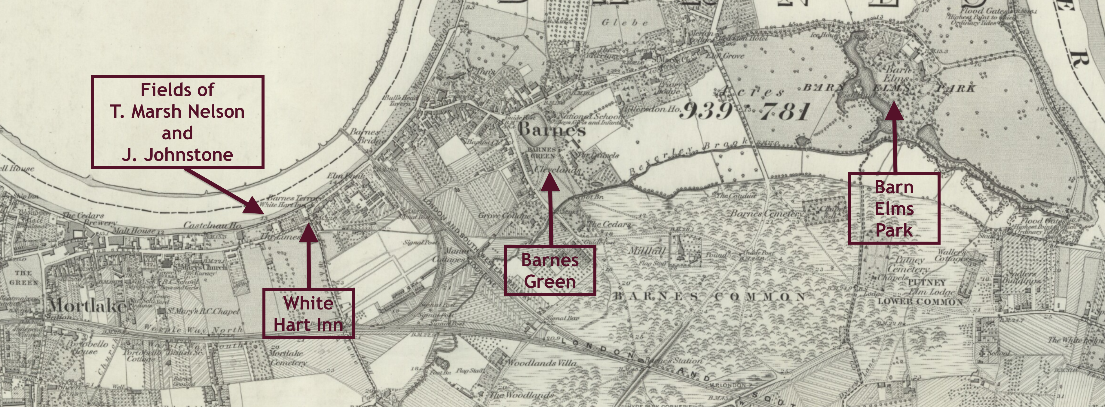 Map of Mortlake and Barnes, Surrey from the Ordnance Survey Six Inch Series, (surveyed 1866 and published 1874), annotated with locations significant to the early development of Barnes FC.